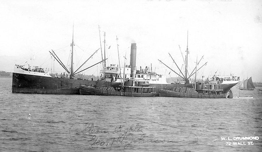 The freight lighters George H. Johnson (left; later considered for United States Navy service as but never commissioned) and Catherine Johnson (the future , right) tied up alongside a cargo ship (behind them) before World War I.